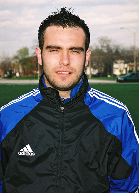 Božo Milić 2006 Serbian White Eagles photo.